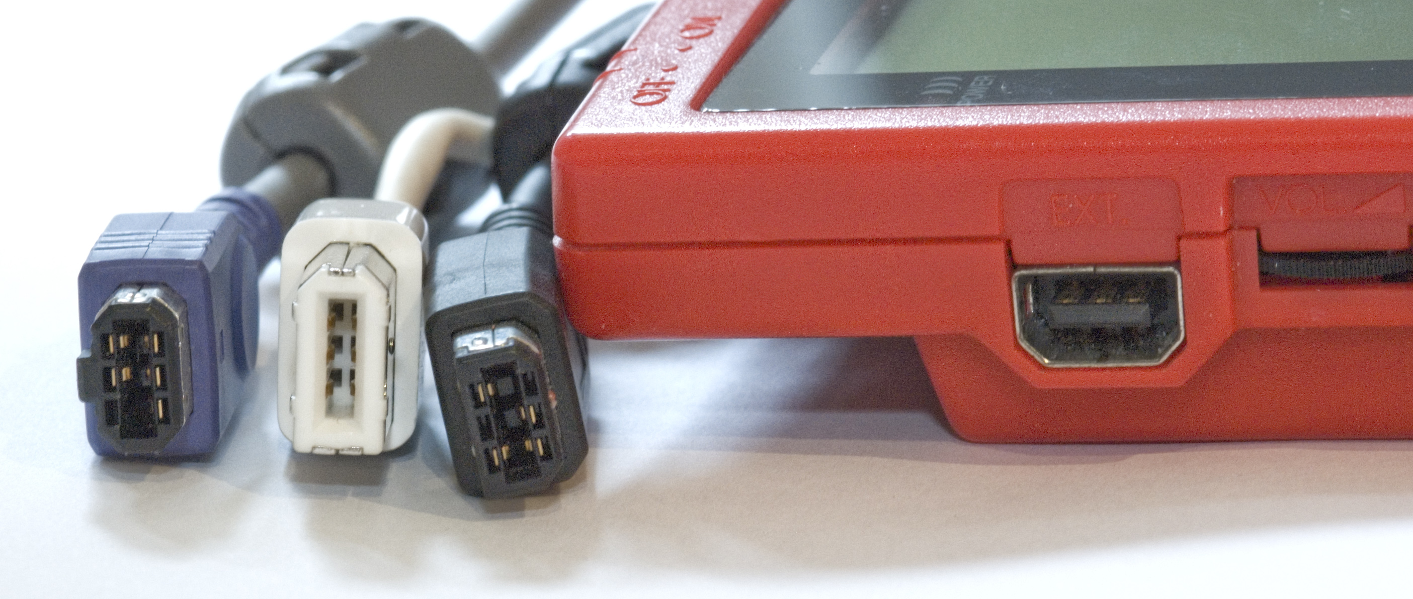 A comparison of the Game Boy Advance Game Link Cable plug, a FireWire 400 cable plug, a Universal Game Link cable plug, and a Game Boy Pocket link cable socket.